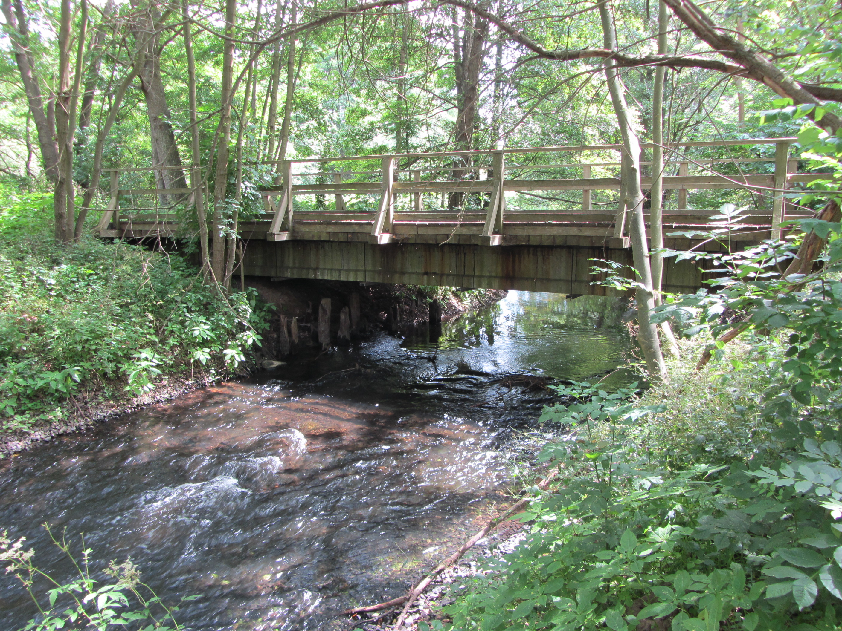 Road bridge over the Nebel near Kirch Rosin, district Rostock, Mecklenburg-Vorpommern, Germany